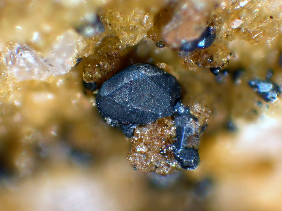 Magnesioferrite, black, grey, dark blue crystals with many faces, often with rounded sides, sometimes almost little balls. EDX showed: 45% Mg - 49% Fe - 5% Al - 1% Mn. Image width: 1,5mm - Locality: Wannenköpfe, Ochtendung, Eifel region, Germany